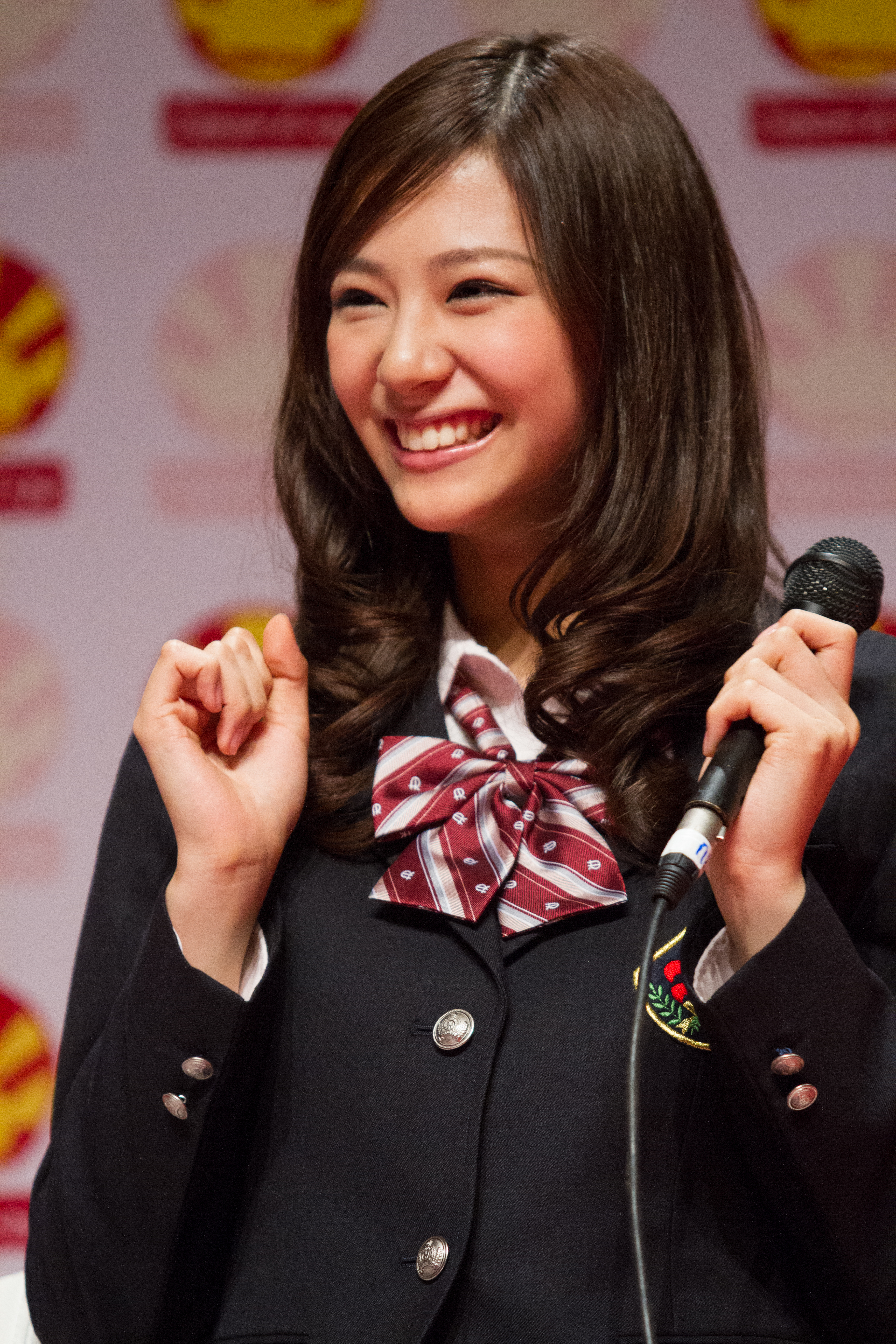 Mariya Nishiuchi during the presentation of the japanese television drama Switch Girl!! at Japan Expo 2012 (Paris, France)